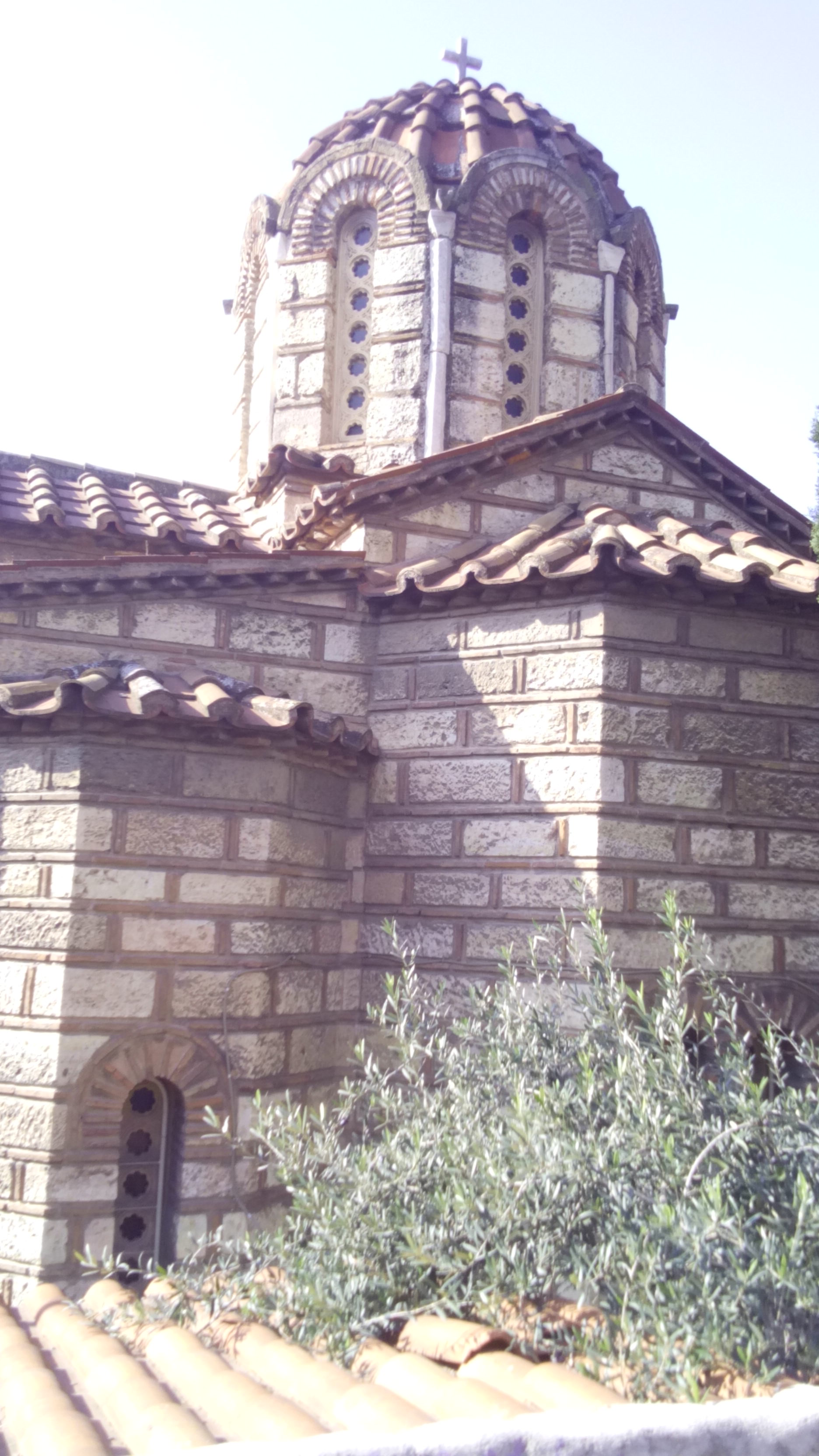 The Holy Church of St. Asomati (Agii Asomati) in Thisseion, (Athens) originally built between the 11th and 12th century. In later centuries, many additions were made, but in 1959, the church was restored to its original form.